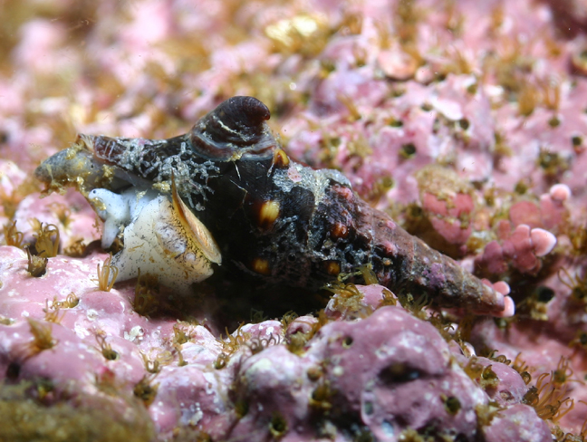 This snail could be Pseudomelatoma torosa. The shell is black but the snail itself is white with black speckles. It is just emerging from the shell